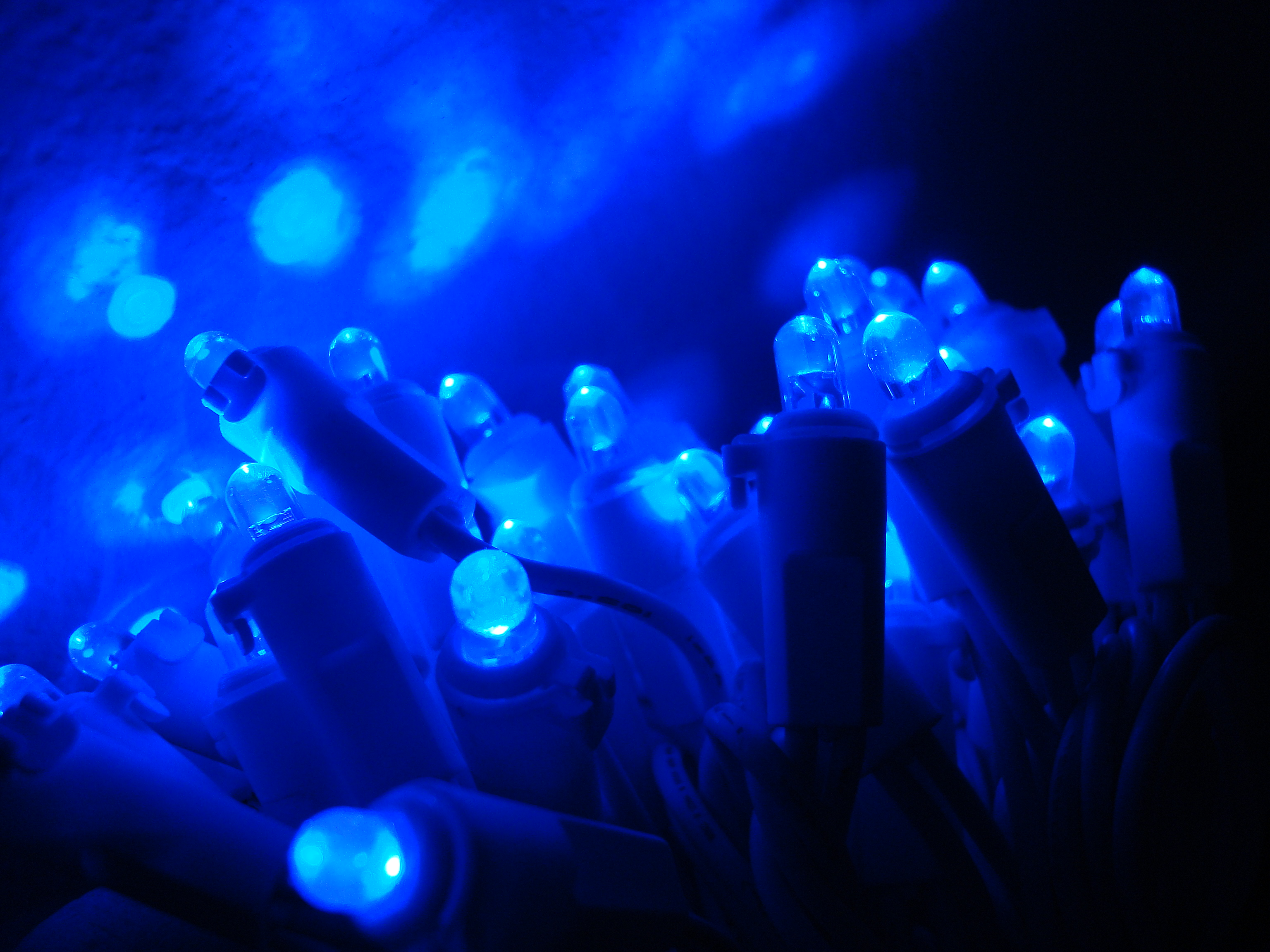 Blue LED Christmas lamps and reflection on wall